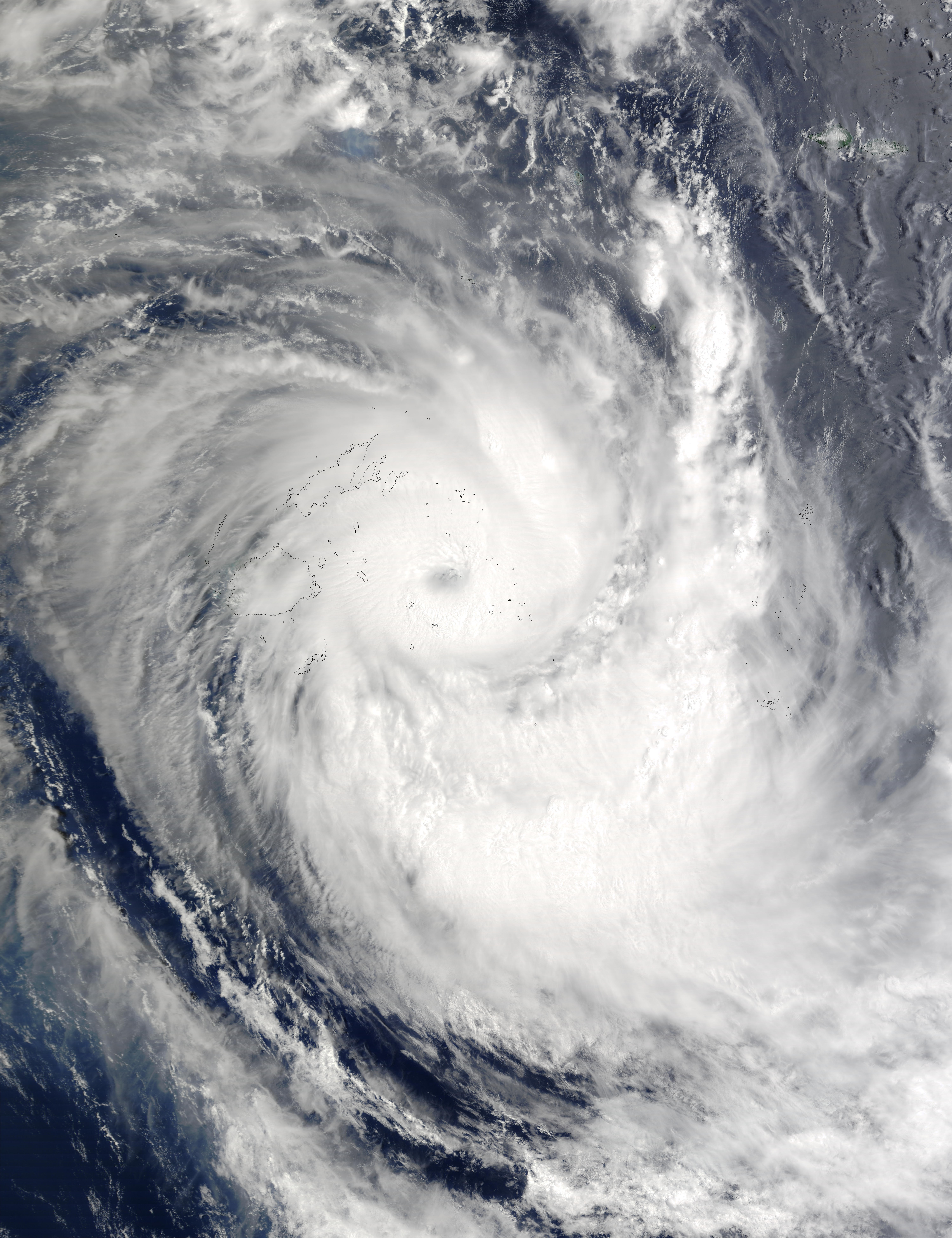 With sustained winds of 104 mph (166 km/hr), Tropical Cyclone Ami has tracked southward at 14 mph (22 km/hr) and is now located approximately 98 miles (157 km) northeast of Suva, Fiji. The system is still expected to begin undergoing extratropical transition in the 12 to 24 hour time period as it interacts with a developing mid-latitude low near New Zealand. This true-color image of Tropical Cyclone Ami was captured by the Moderate Resolution Imaging Spectroradiometer (MODIS), flying aboard NASA's Terra satellite.